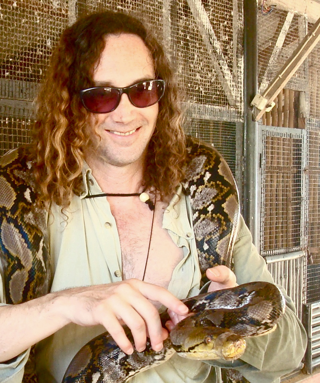 On set with director Richard Termini